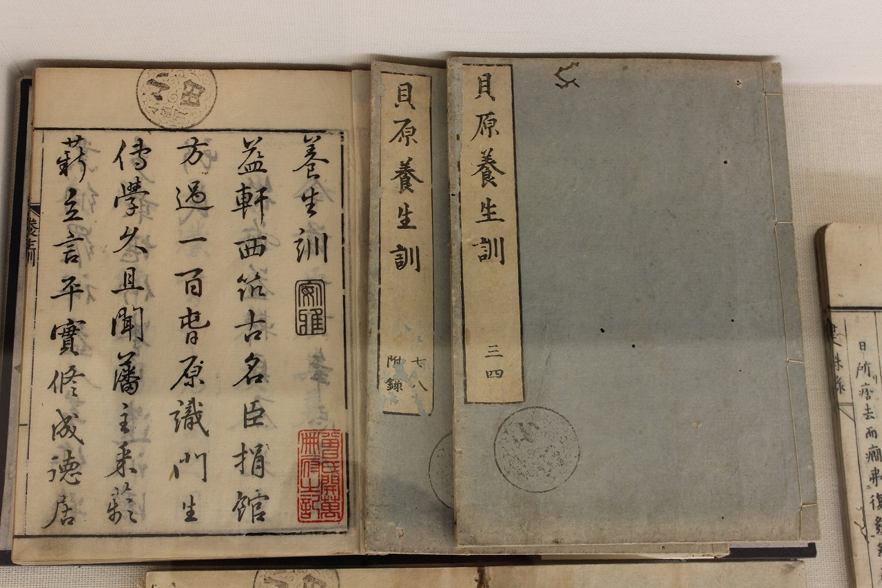 Yōjōkun (The Book of Life-nourishing Principles), 1713 written by Kaibara Ekken